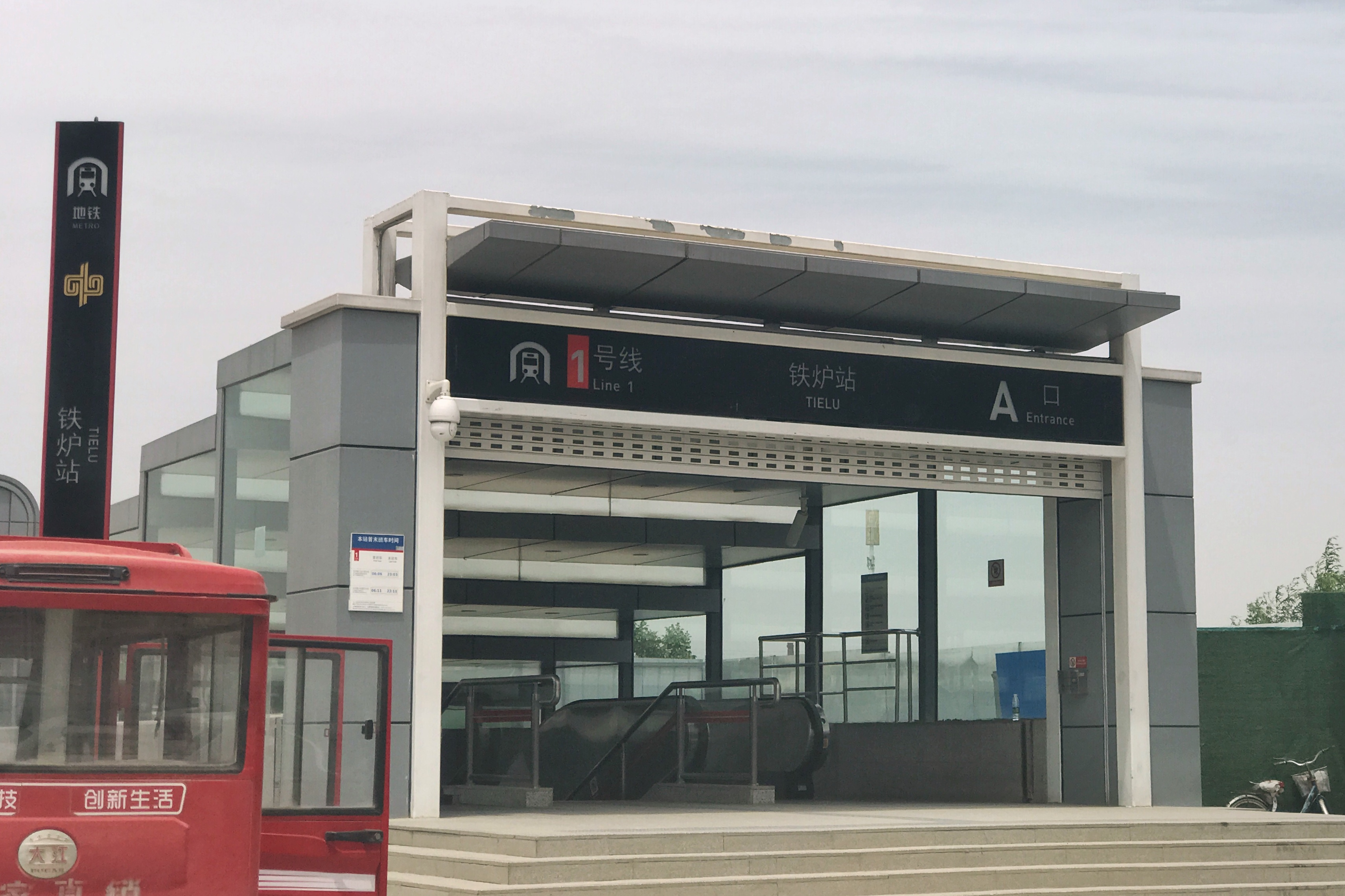 Exit A of Tielu Station